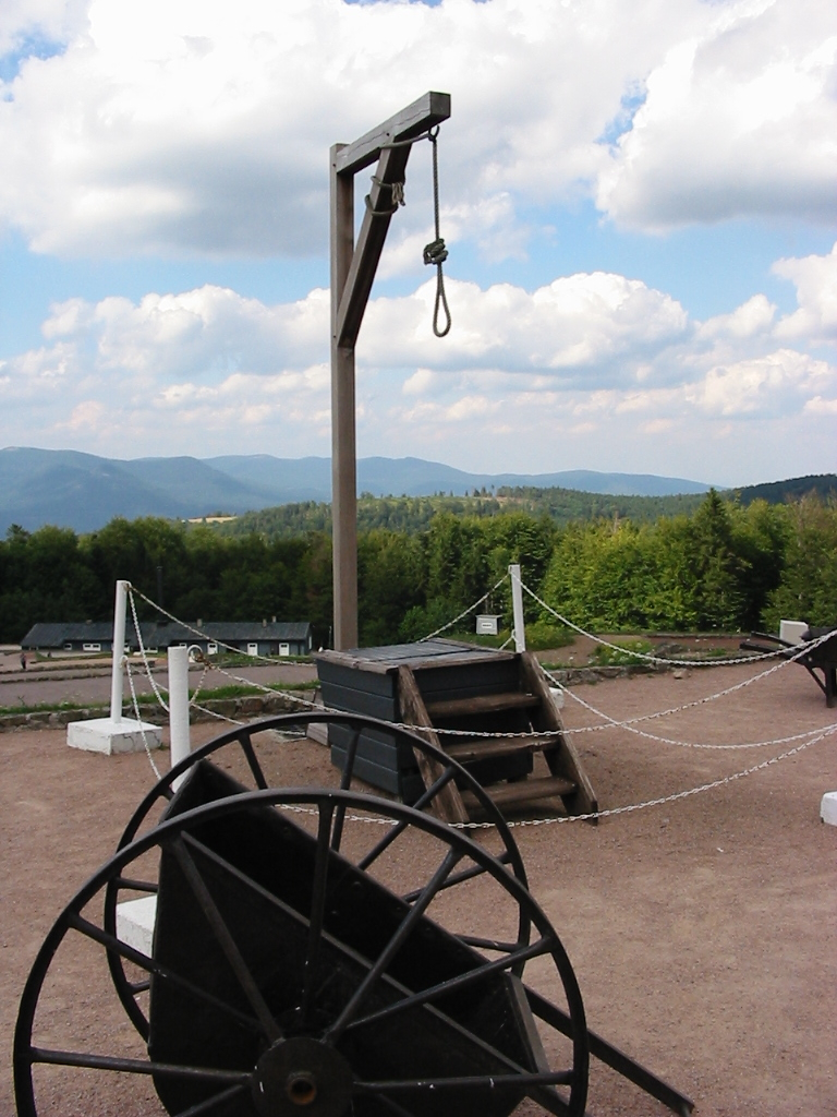 Natzweiler-Struthof was a Nazi concentration camp, located in the Vosges Mountains close to the Alsatian village of Natzwiller (German Natzweiler) in France.